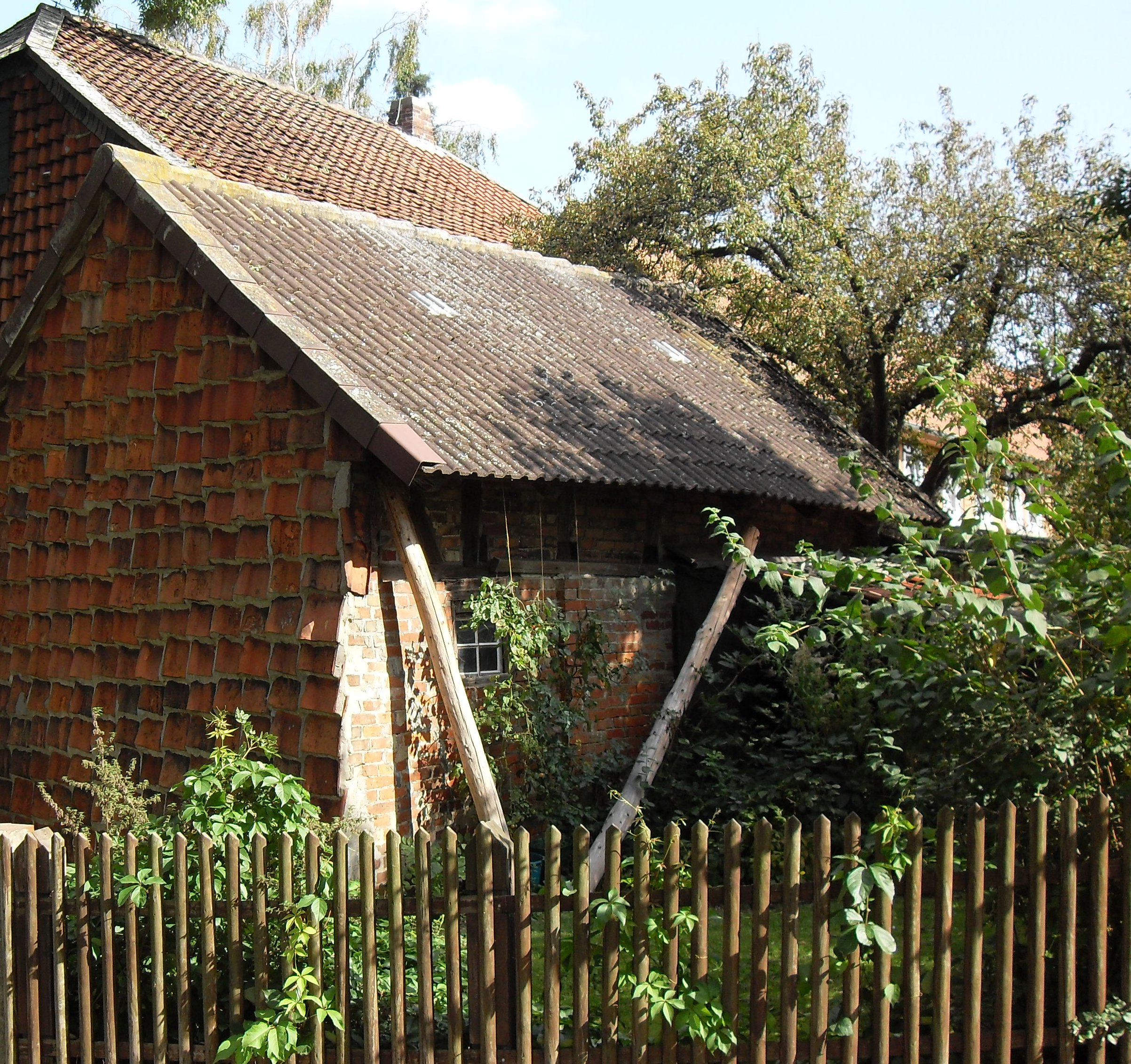 shack in Klein Denkte, Germany